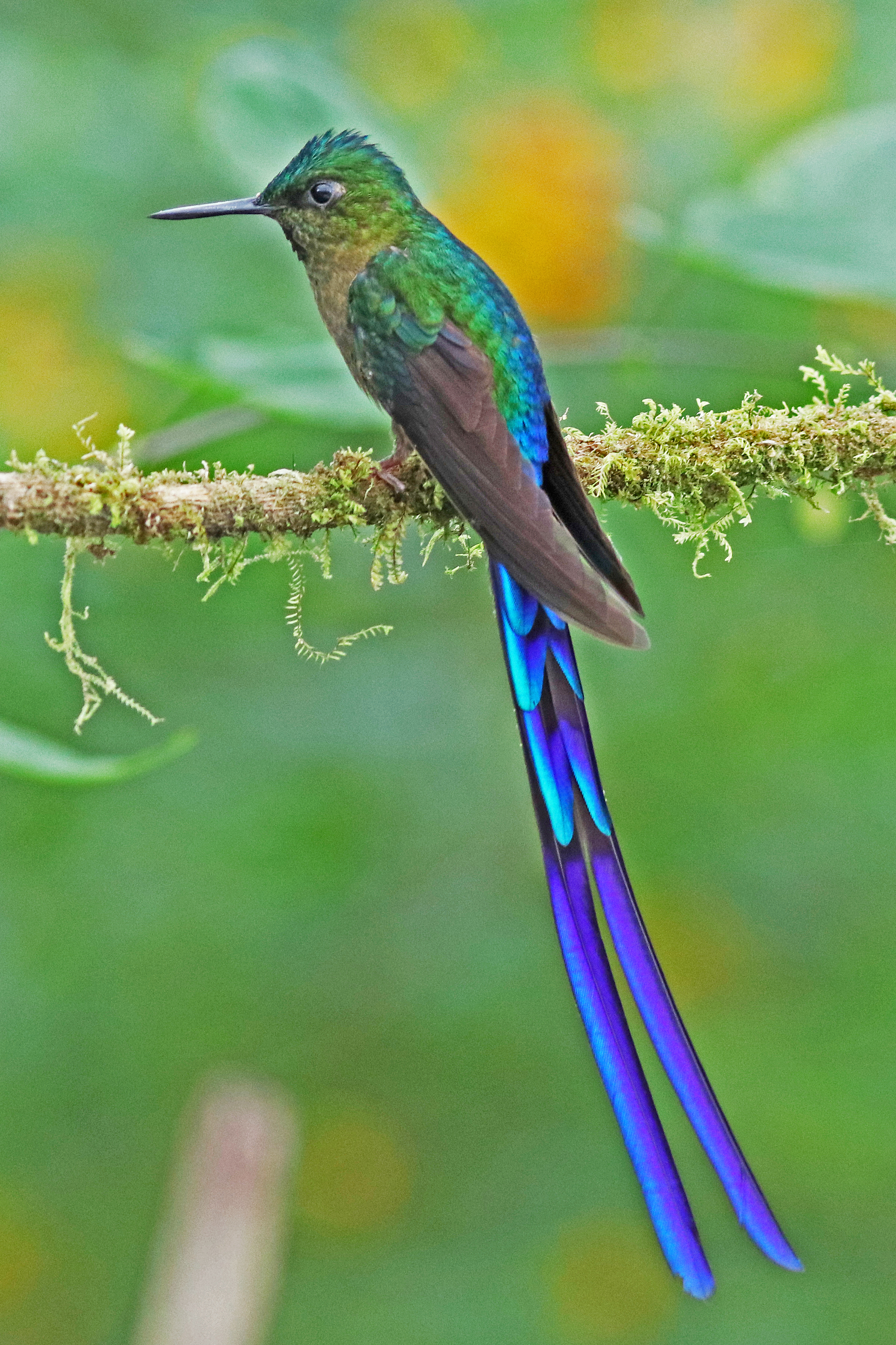 Violet-tailed Sylph resting on a branch in northwestern Ecuador